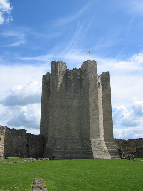 Conisbrough Castle Keep, taken from inside the castle grounds